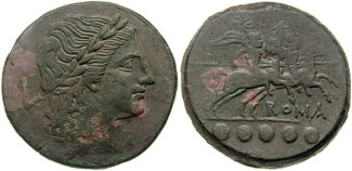 Roma: Anonymous. Circa 211-208 BC. Æ Quincunx (25.34 g). Luceria in Apulia mint. Laureate head of Apollo right; behind Dioscuri riding right; ••••• in exergue.